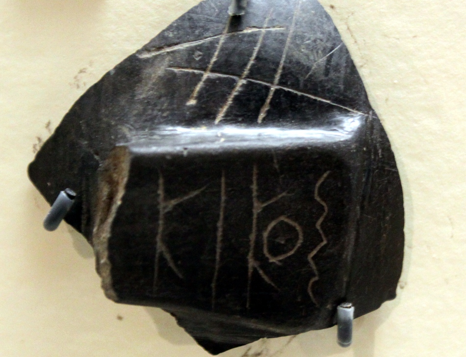 Phrygian inscribed object from Gordion, bearing the personal name Kikos.